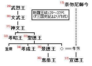 the geneology of Silla( 29th King ~ 37th King) / 新羅王系図(29代～37代)